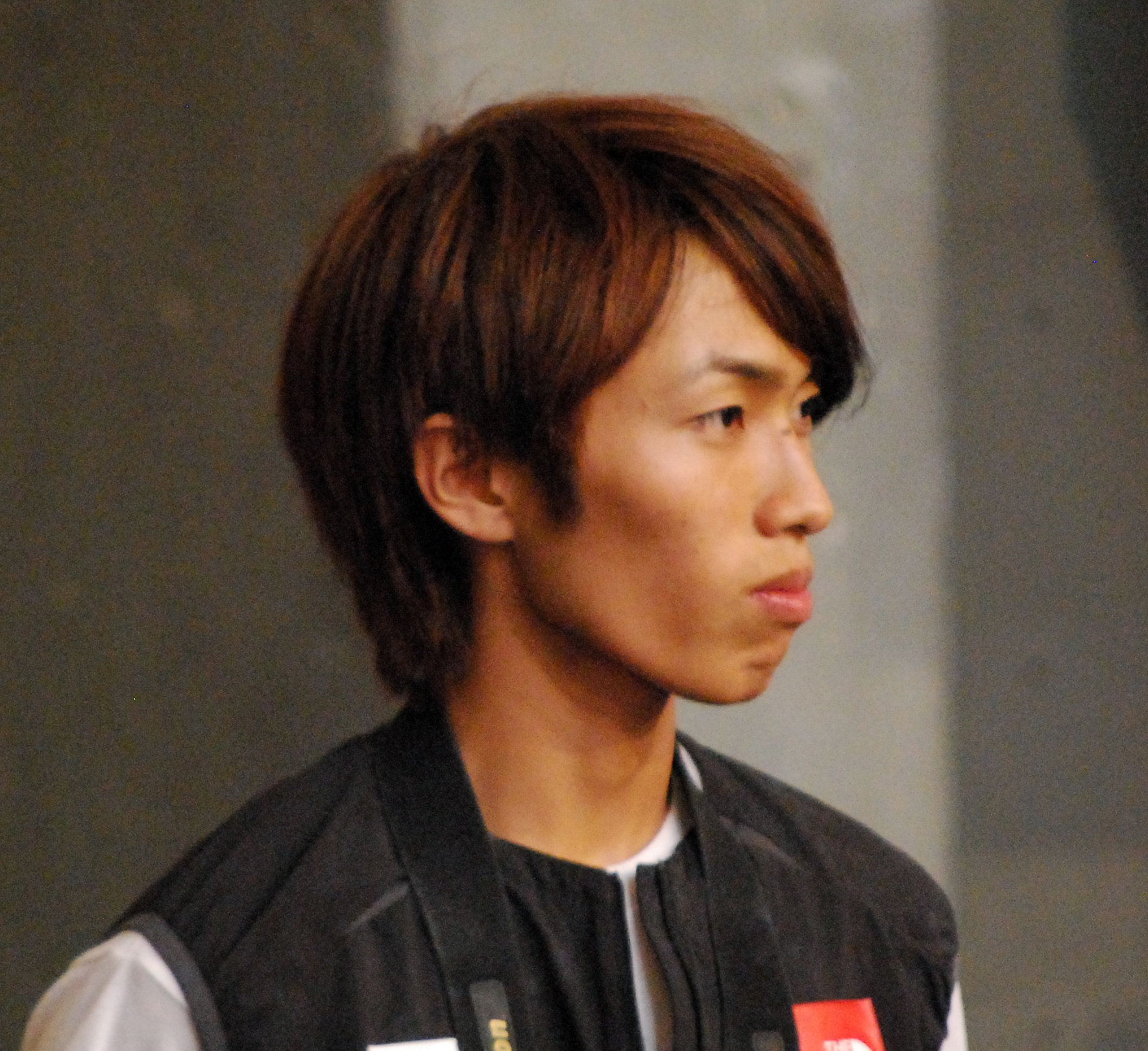 Amma Sachi, World Cup Imst (Austria) 2009